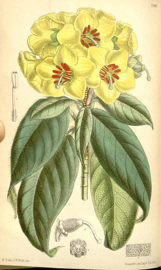 Rhododendron boothii